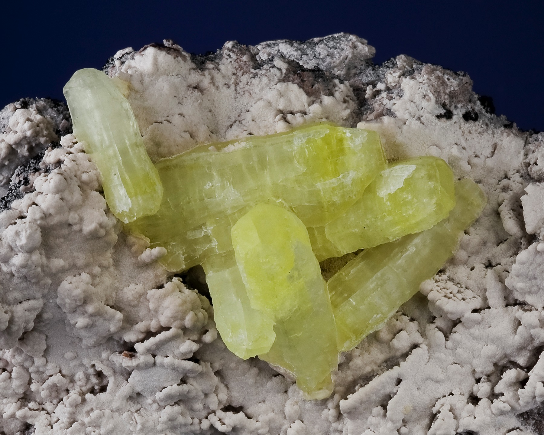 Ettringite, Oyelite Locality: N'Chwaning I Mine, N'Chwaning Mines, Kuruman, Kalahari manganese fields, Northern Cape Province, South Africa (Locality at ) Size: cabinet, 13.7 x 7.5 x 7 cm Ettringite on Oyelite One of the larger good matrix specimens, this is a beautiful matrix piece, rare for the species, with a 3-dimensional cluster of crystals perfectly centered on matrix. Very aesthetic! The crystals are to 3.2 cm long, and the cluster overall is 5.2 cm across. All are starkly contrasting against a rolling carpet of soft white Oyelite. The crystals are a soft, lemon-yellow color, translucent, completely formed and free of damage. They have an unusual shimmering surface sheen , very attractive. The matrix is a manganese-rich ore completely covered on the front by a blanket of soft Oyelite deposition on its front side. It is covered on the backside with BRILLIANTLY sparkling carpet of thousands of micro-hausmannite crystals and a few little metallic hematites. This combination overall is vastly different from anything else I have seen for the species, and quite unusual in any case.